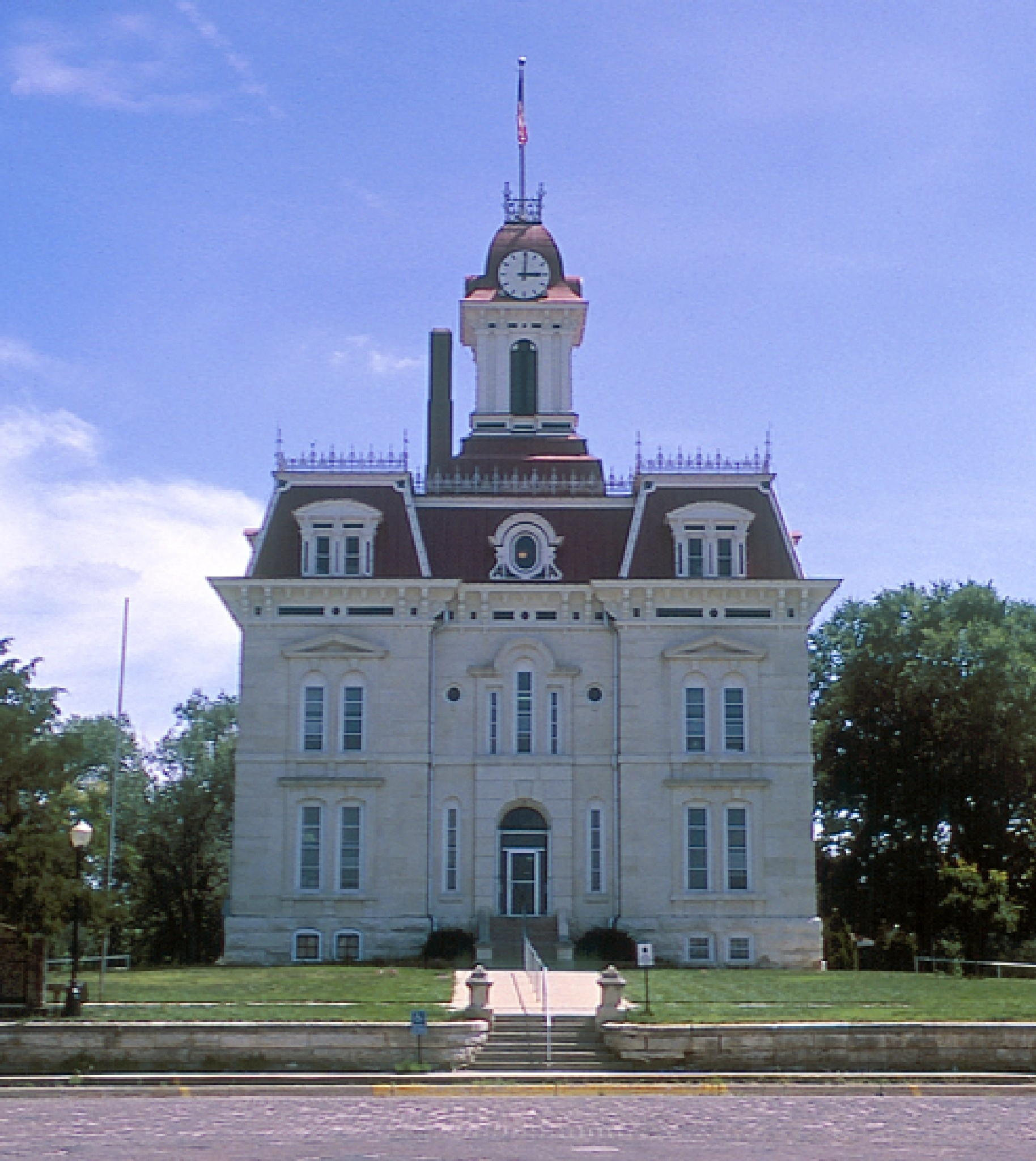 Front of the Chase County Courthouse in Cottonwood Falls, Kansas, United States. Built in 1873, it is listed on the National Register of Historic Places.